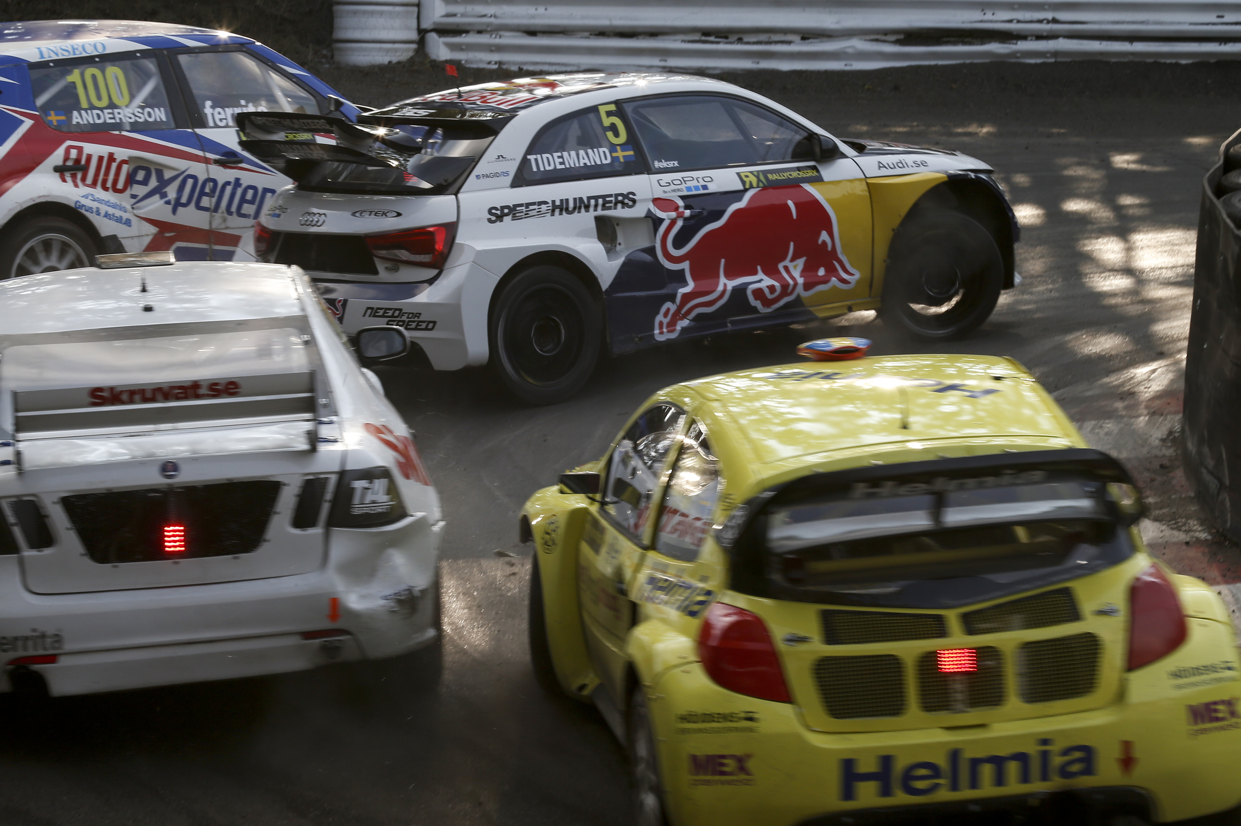 2014 FIA World Rallycross Championship Round 09 Estering, Germany 20th & 21st September 2014 Worldwide Copyright: EKS/McKlein